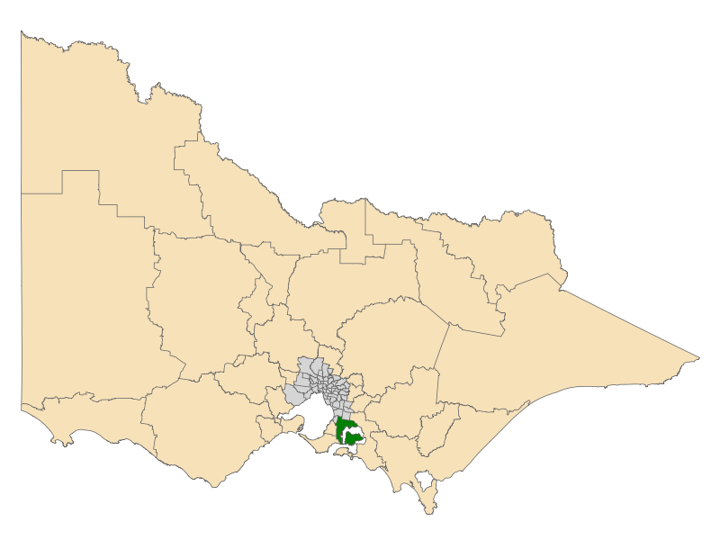 Location of the Electoral District of Hastings (dark green) in the state of Victoria, Australia. These boundaries were used for the Victorian state election on 29 November 2014.